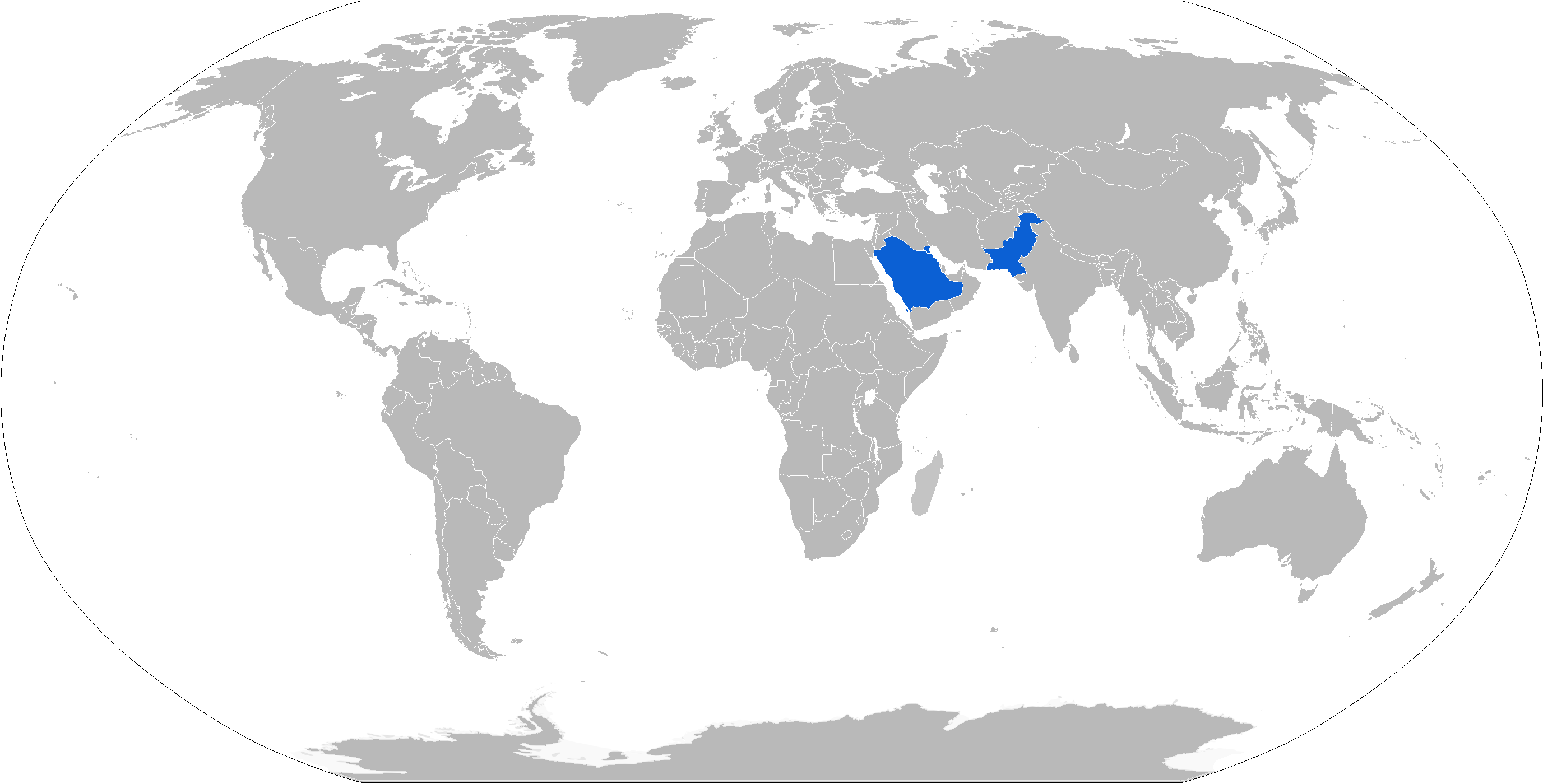 Map of Al-Fahd operators in blue